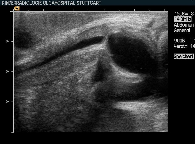 Penile sonography in a neonate with urethral walve and prestenotic dilatation during miction